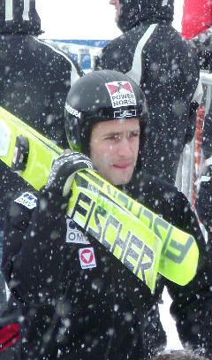 ski jumper Wolfgang Loitzl from Austria during the World Cup in Zakopane on 27-1-2008